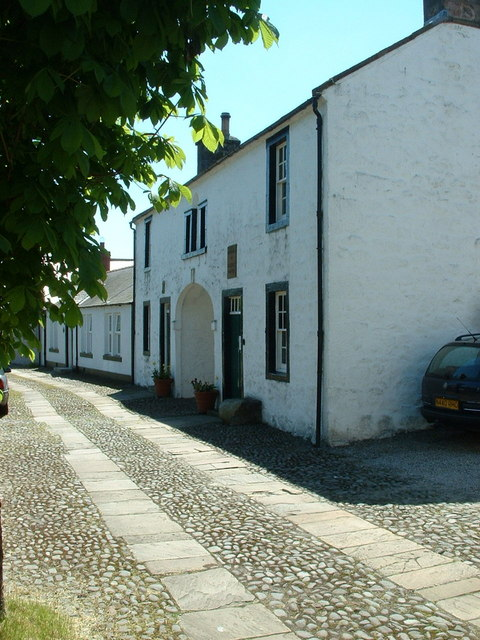 Thomas Carlyle's Birthplace. The Arched House, Ecclefechan. Thomas Carlyle, one of the 19th century’s leading voices on morals and social equality,was born here in 1795 in this house constructed by his father and uncle, both local stonemasons.